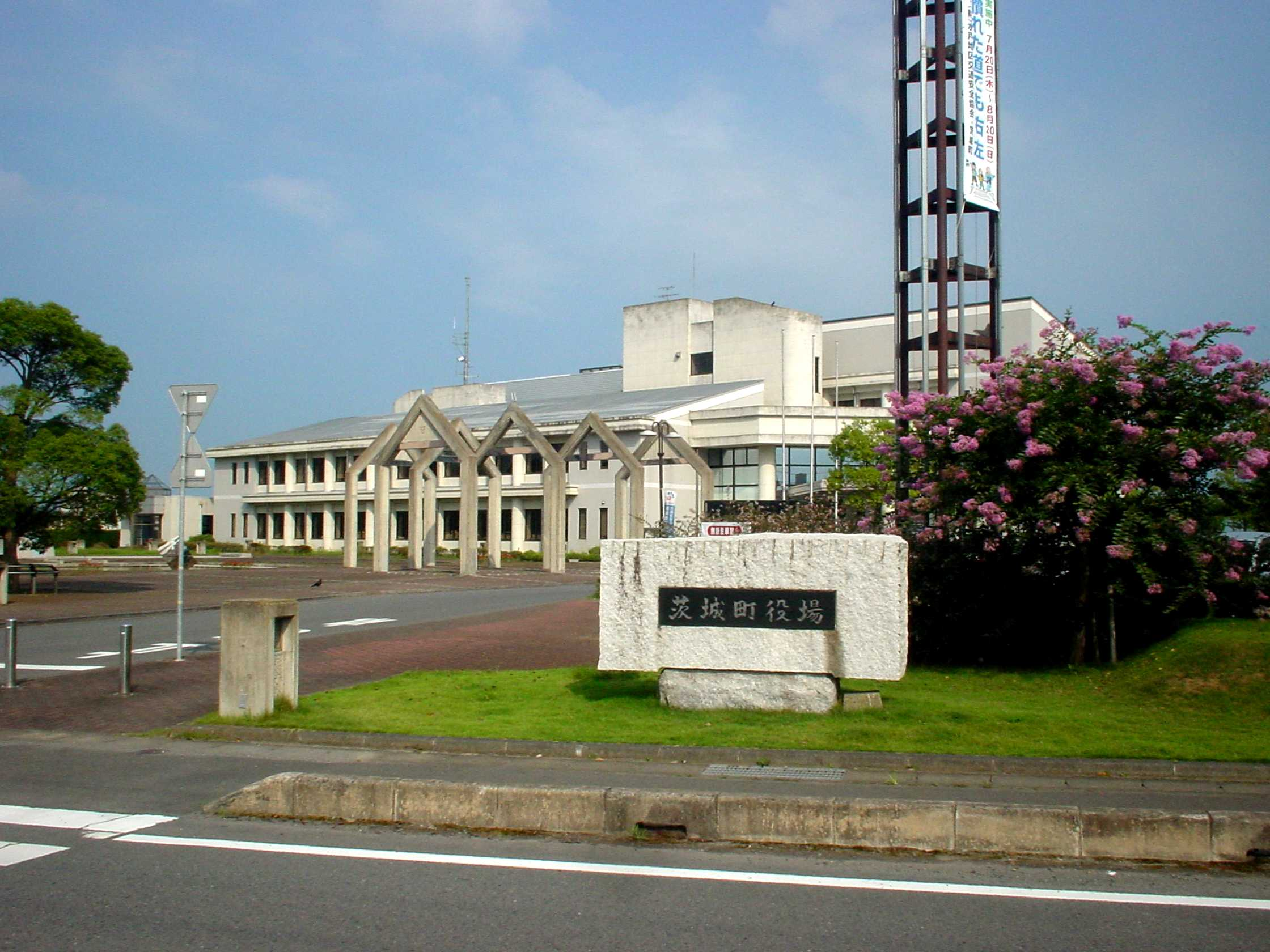 Ibaraki Town Hall, Ibaraki, Ibaraki, Japan